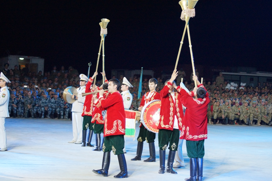 Первый Международный военно-музыкальный фестиваль «Труба мира» в рамках международного учения «Мирная миссия-2014»